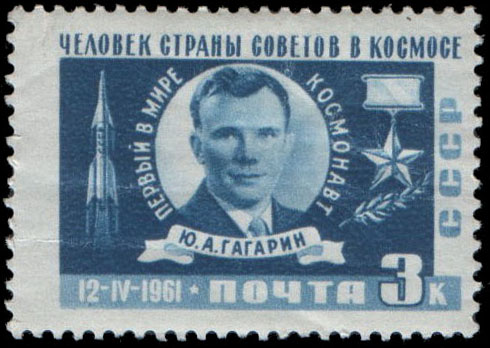 Stamp of the Soviet Union, Yuri Gagarin first man in space. CPA #2560.